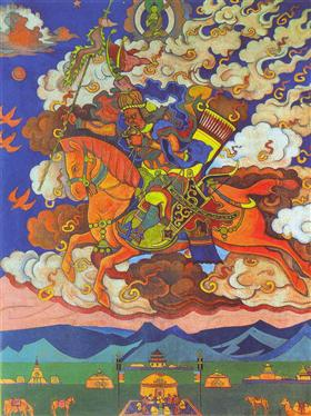 Work by Nicholas Roerich